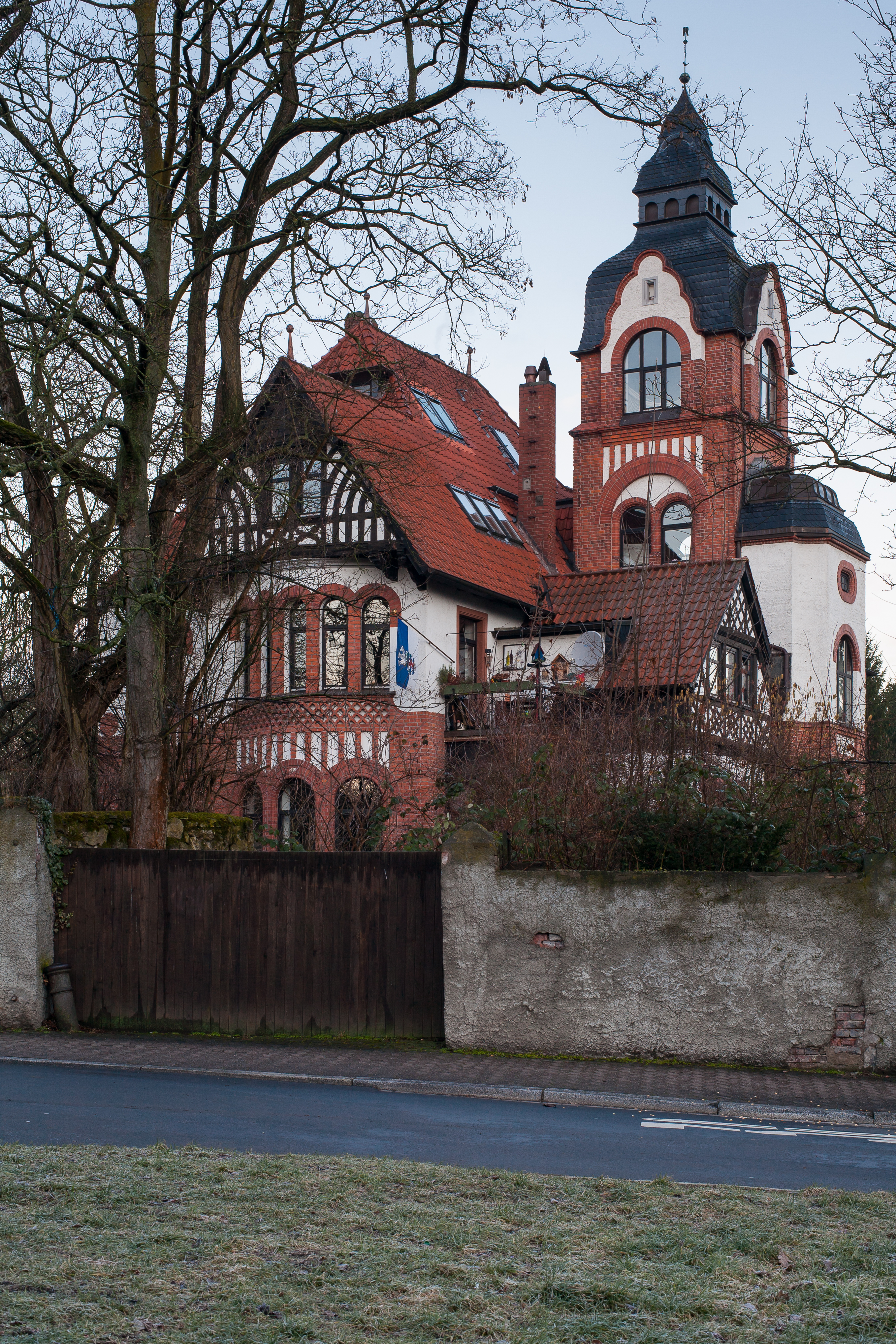 Villa Osmers locatedt at Am Lindener Berge street no. 36 in Linden-Mitte quarter of Hannover, Germany.